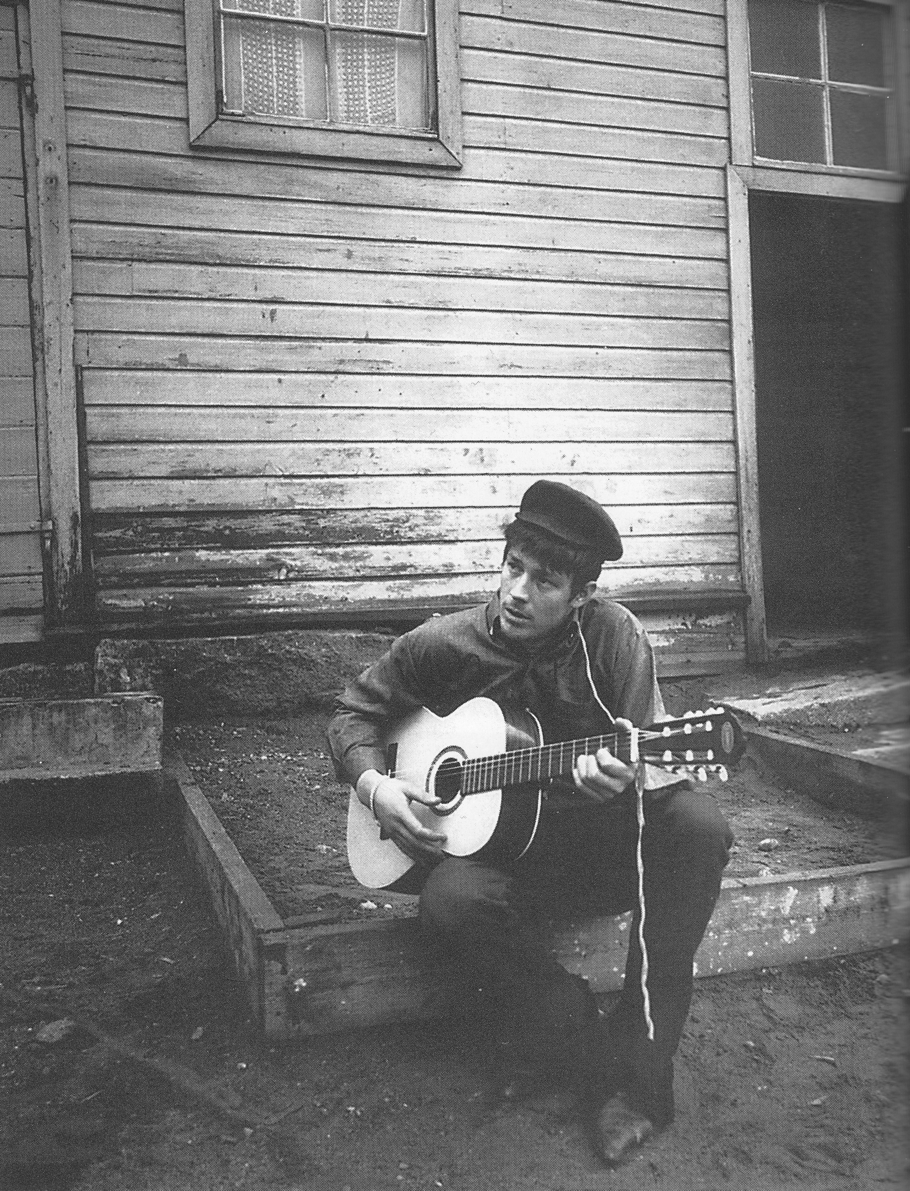 Irwin Goodman